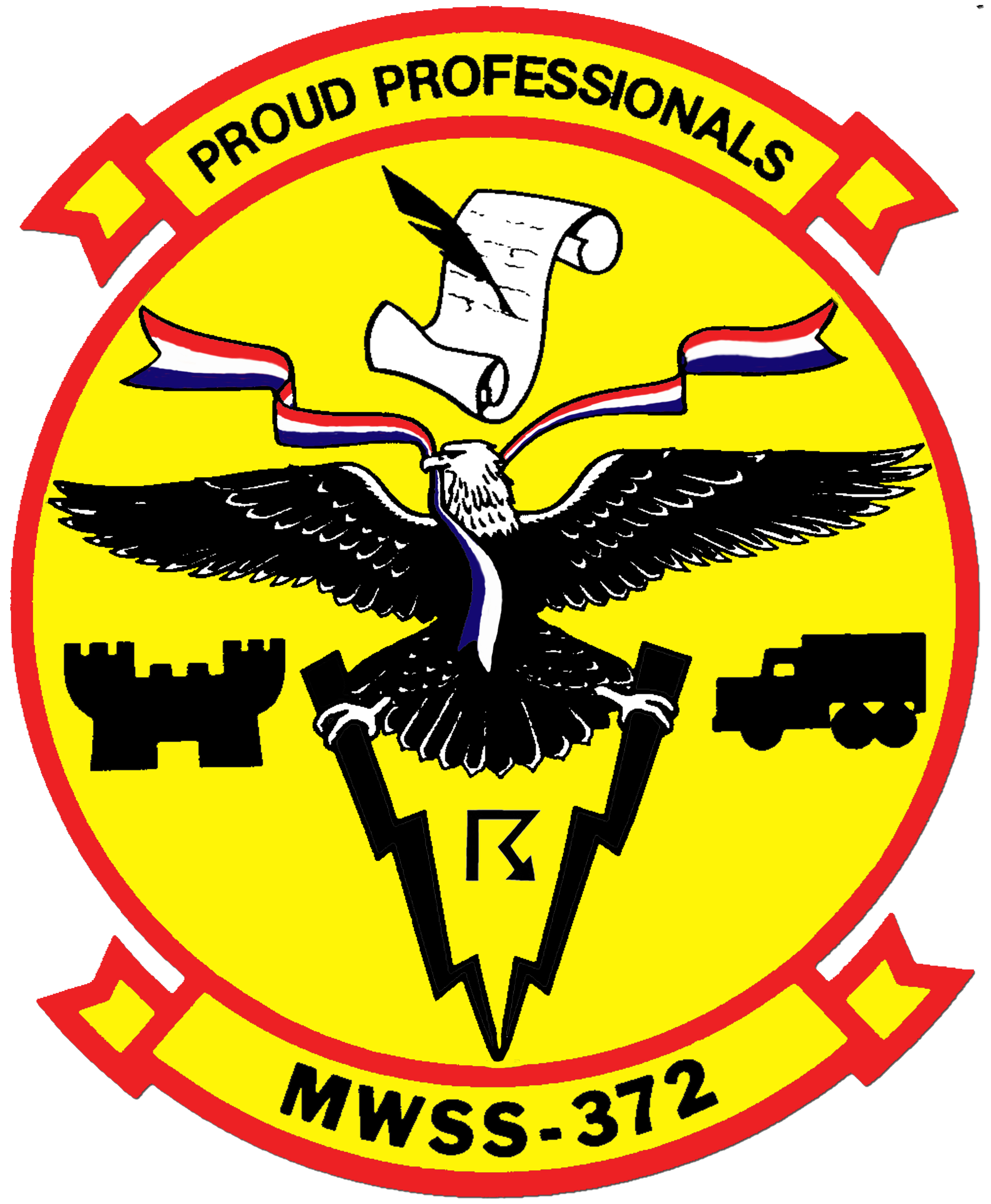 Squadron insignia for MWSS-372